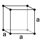 Cubic crystal structure.